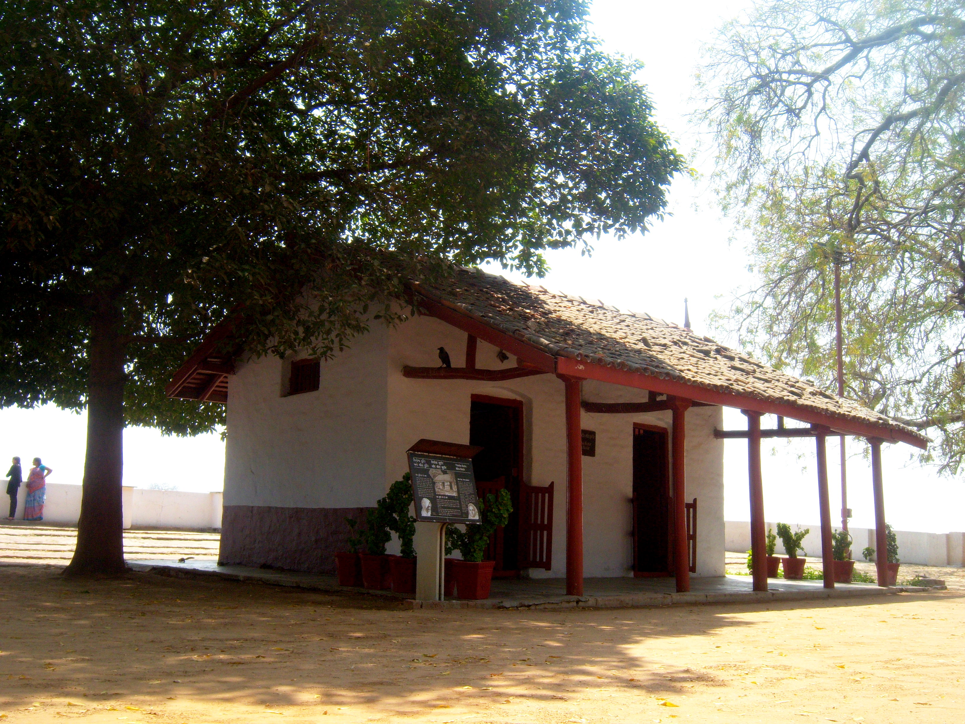 Vinobha Kutir, Sabarmati Ashram